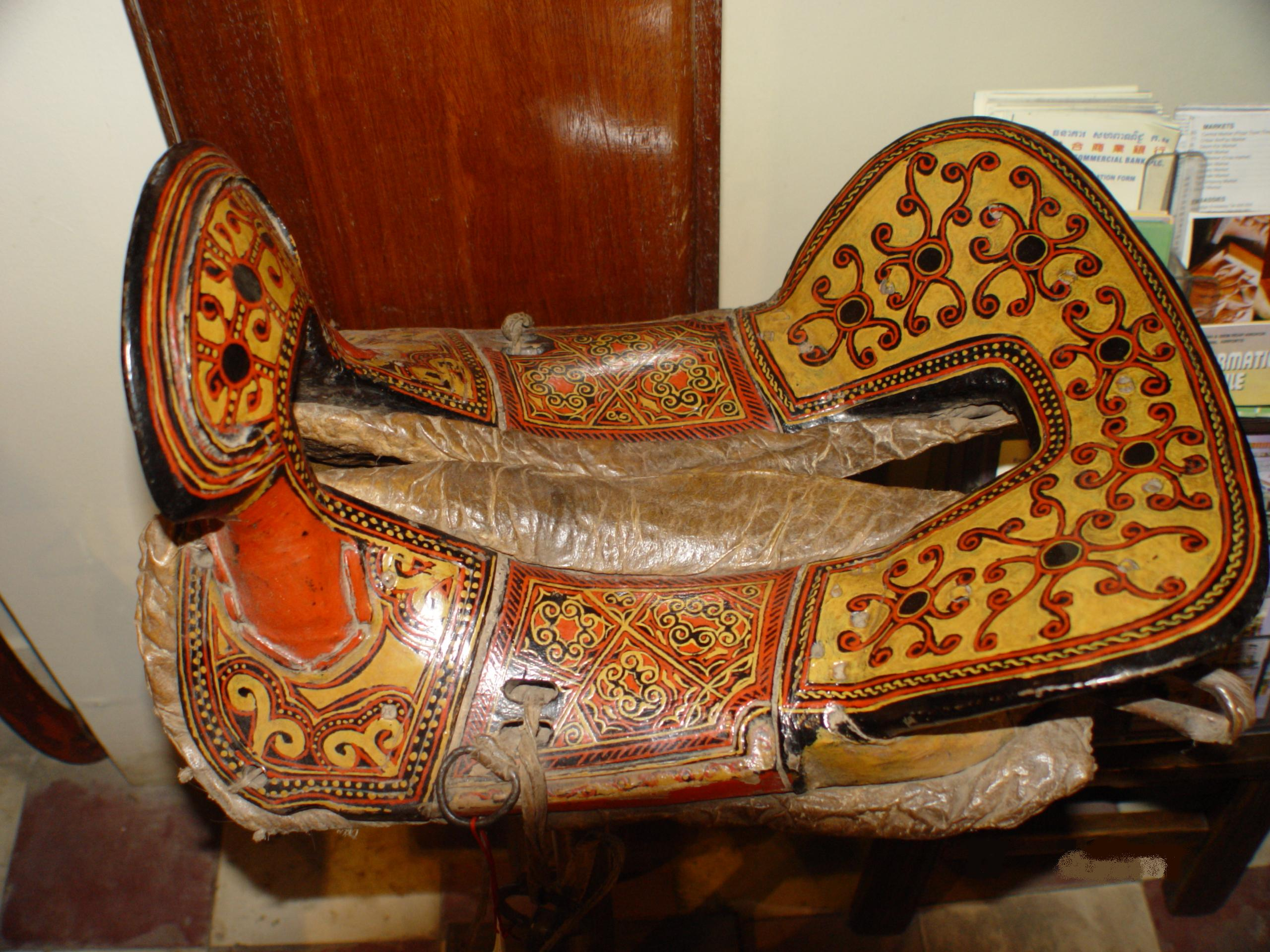 I, David Straub, took this photo in an antique shop in Phnom Penh, Cambodia, January 25, 2005. The photo is of an antique saddle from the Yi ethnic minority in Yunnan province. Exact age of saddle unknown.